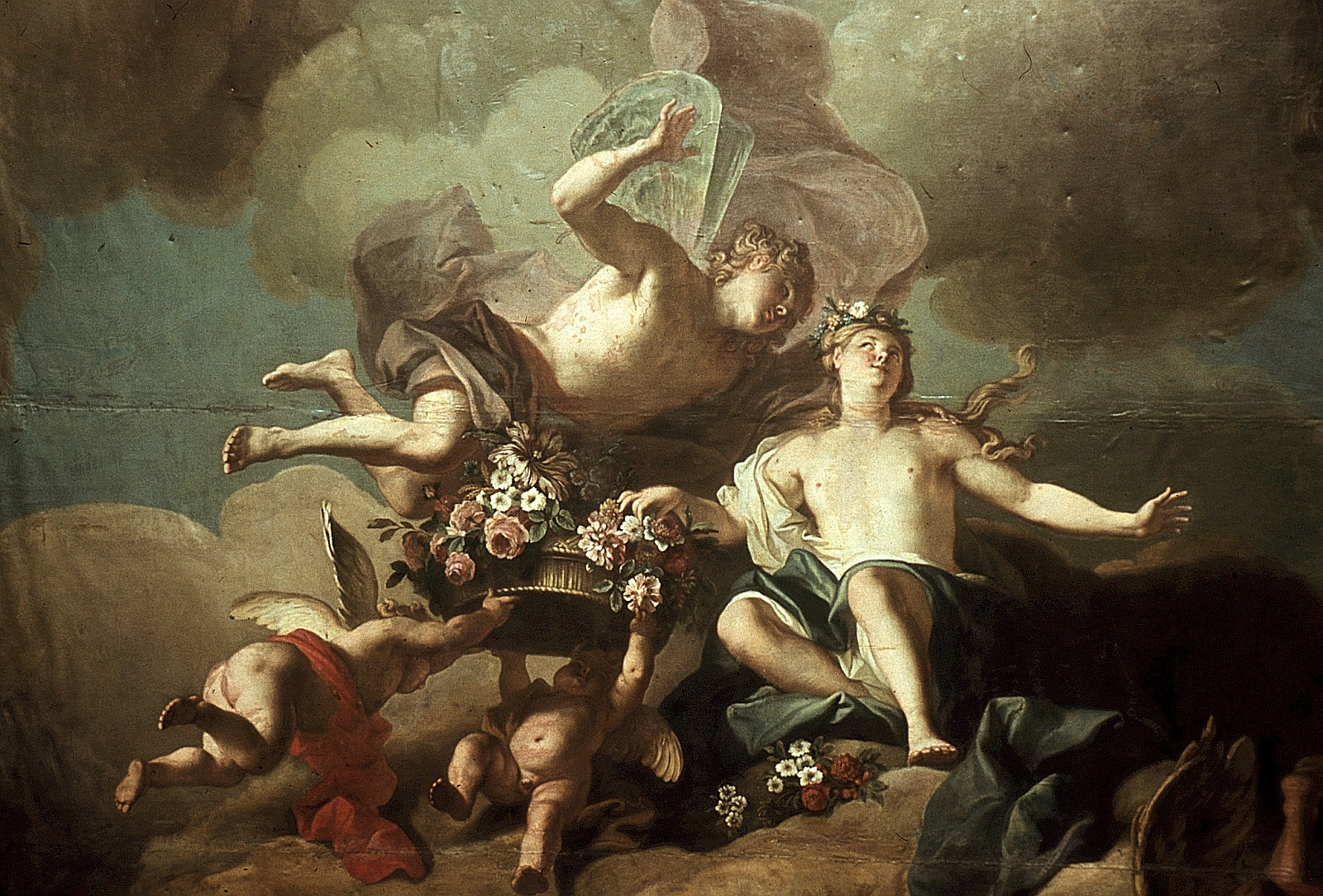 t